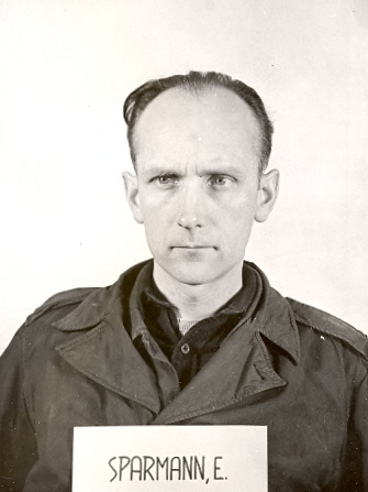 Erich Sparmann as a witness during the Nuremberg Trials